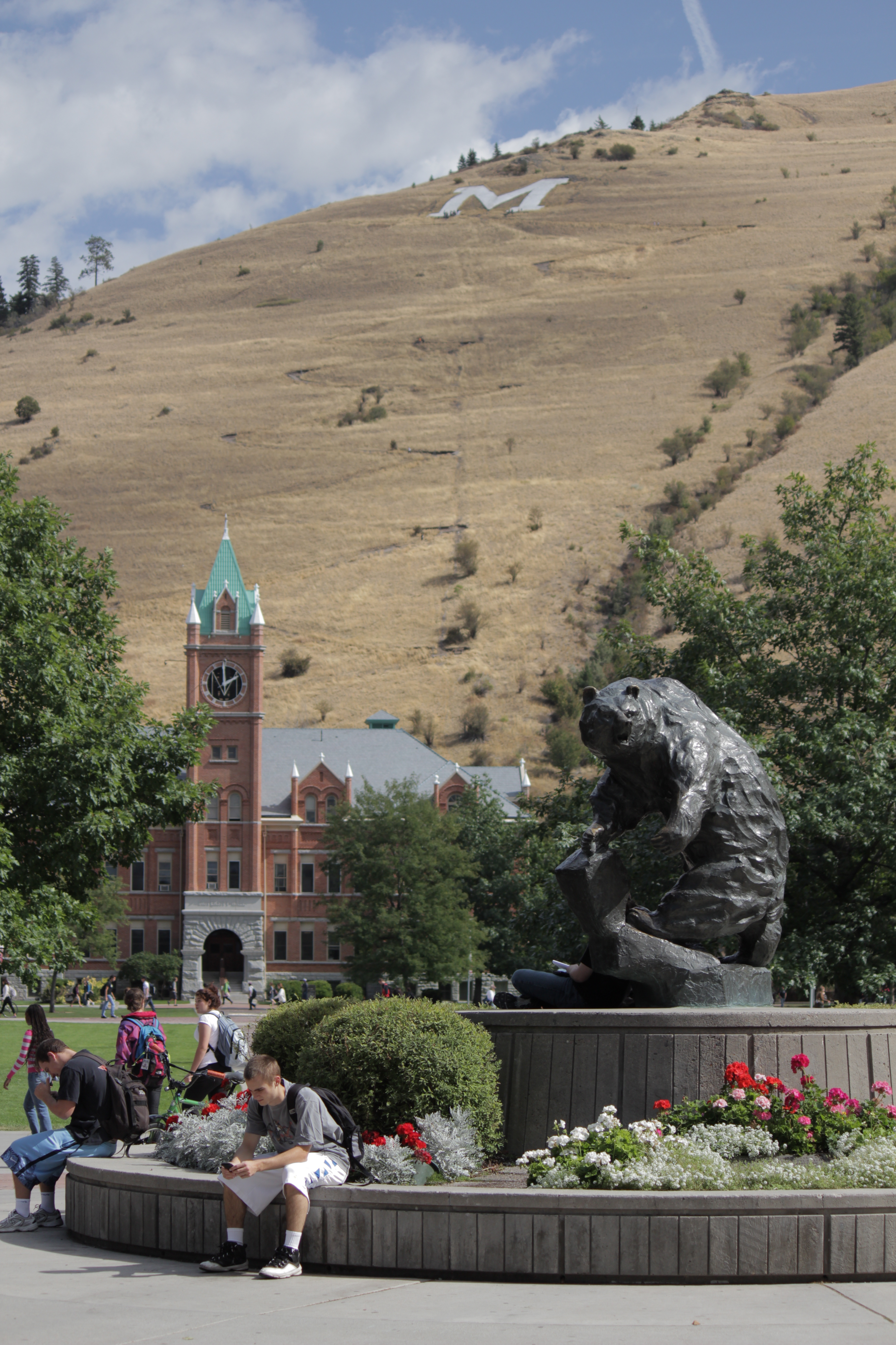 This is a high quality image of the grizzly statue, University (Main) Hall, and the letter M geoglyph and trail with students between classes near the beginning of the fall 2011 semester.